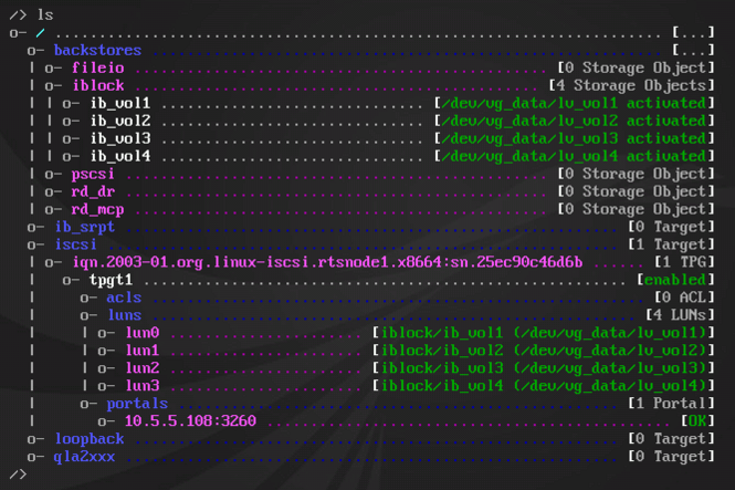 Screenshot of targetcli with 4 iSCSI LUNs.